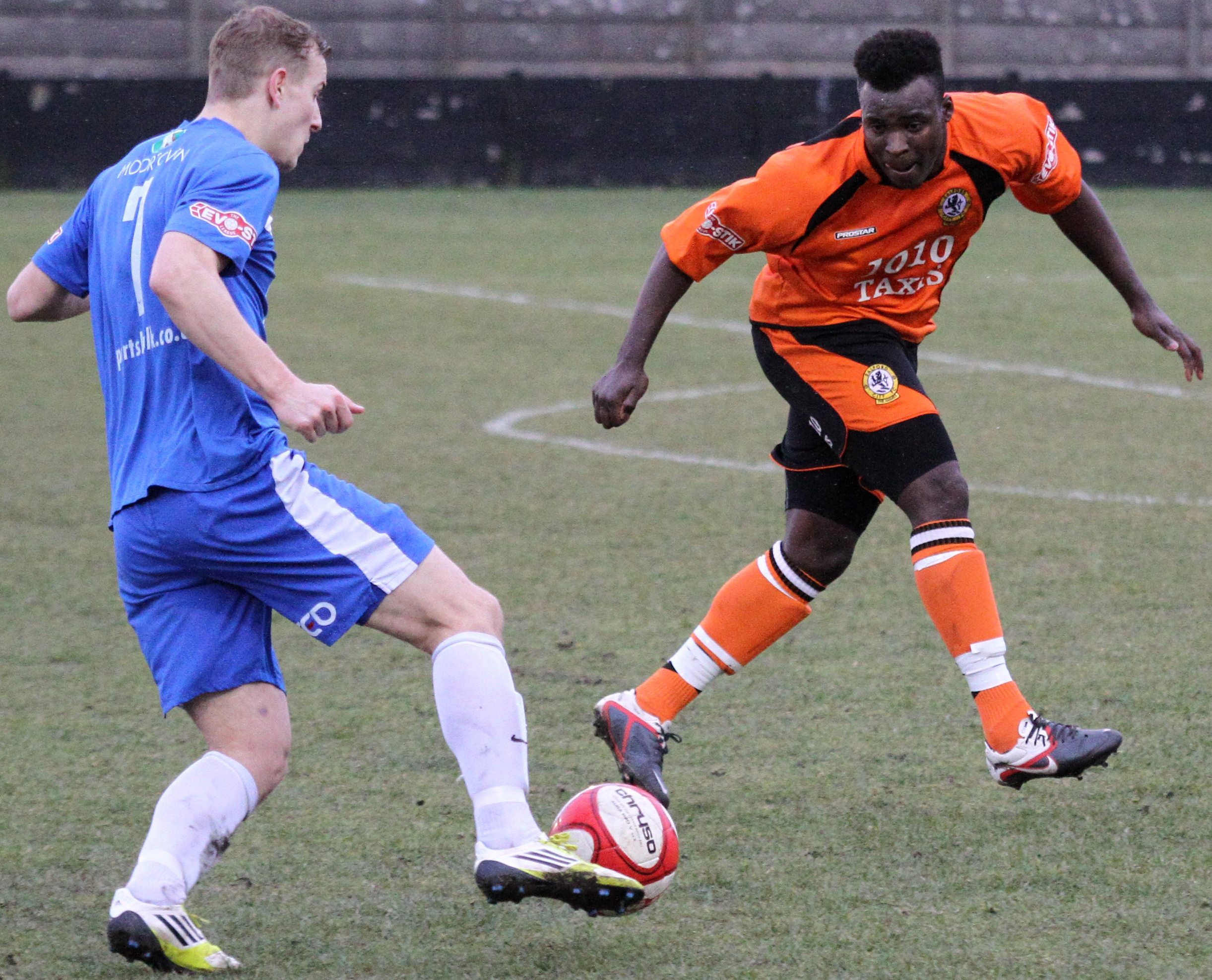 Adam Priestley with Farsley in 2013 vs. Adrian Bellamy of Salford City